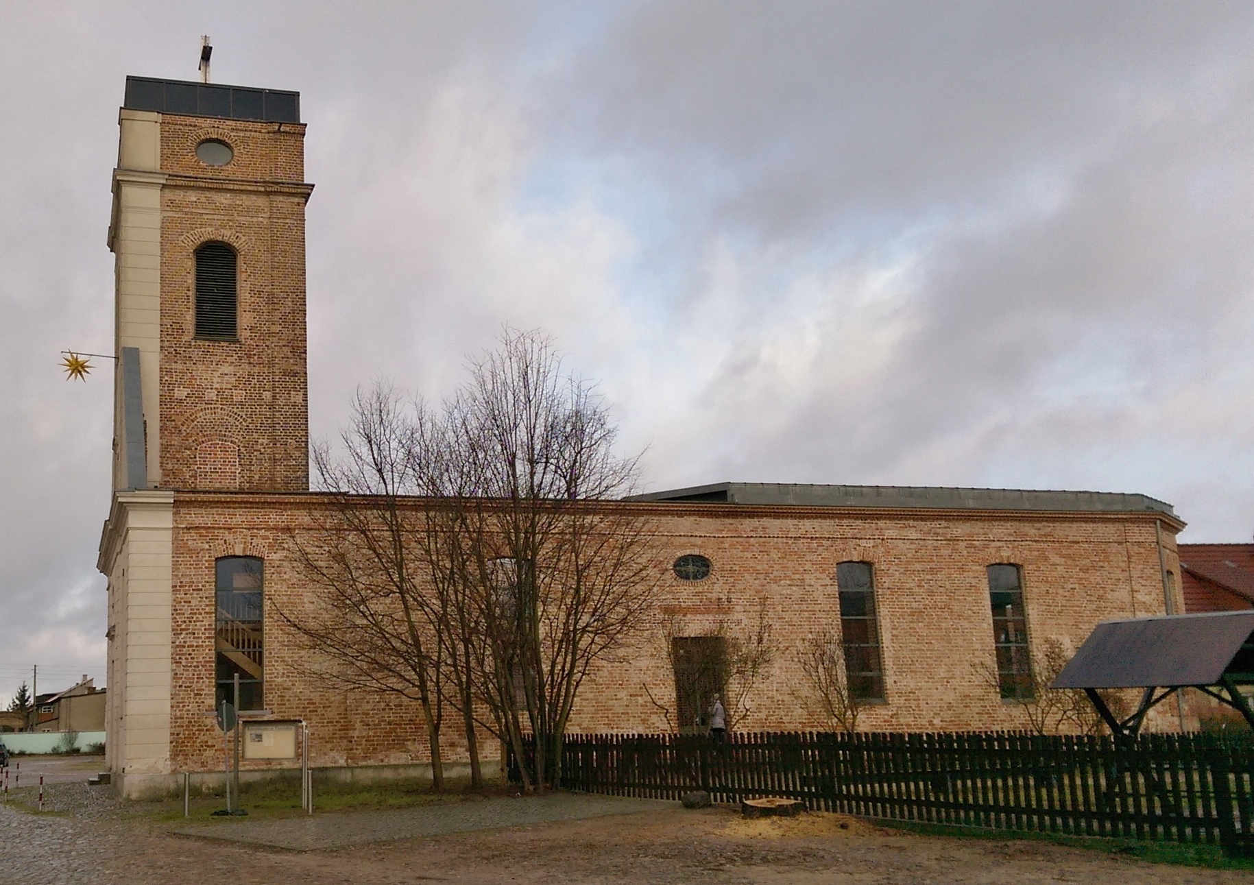 Southern view of Holy-Cross church in Vierraden, Schwedt/Oder municipality, Uckermark district, Brandenburg state, Germany